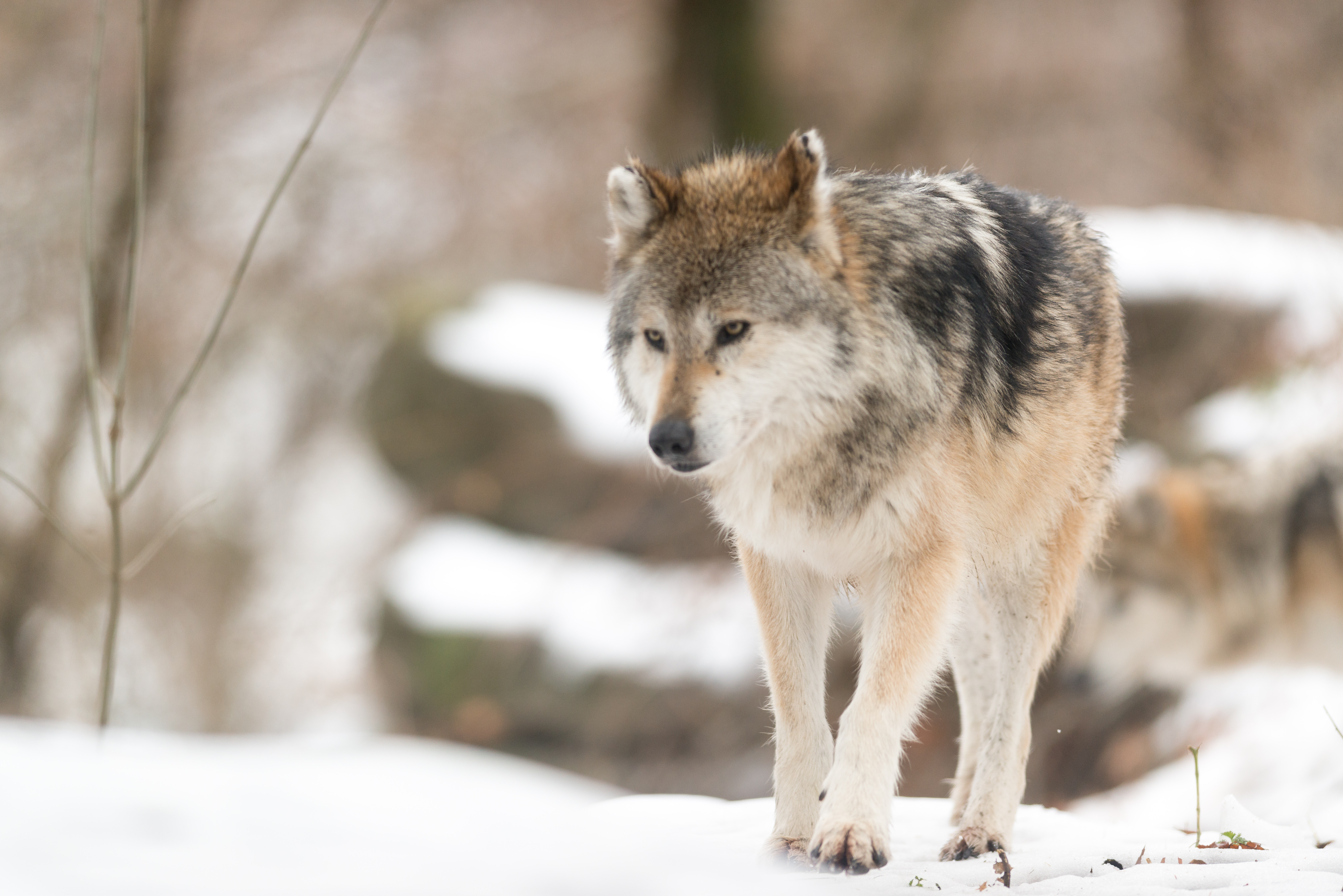 Missed a bit on the focus here but I liked the composition of the shot so here it is.